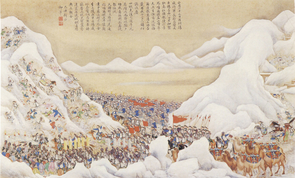 A scene of the Chinese Campaign against Rebels in the East turkestan, 1828